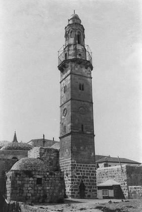 THE EL KHANQA MOSQUE IN THE OLD CITY OF JERUSALEM PHOTOGRAPHED DURING THE OTTOMAN ERA.